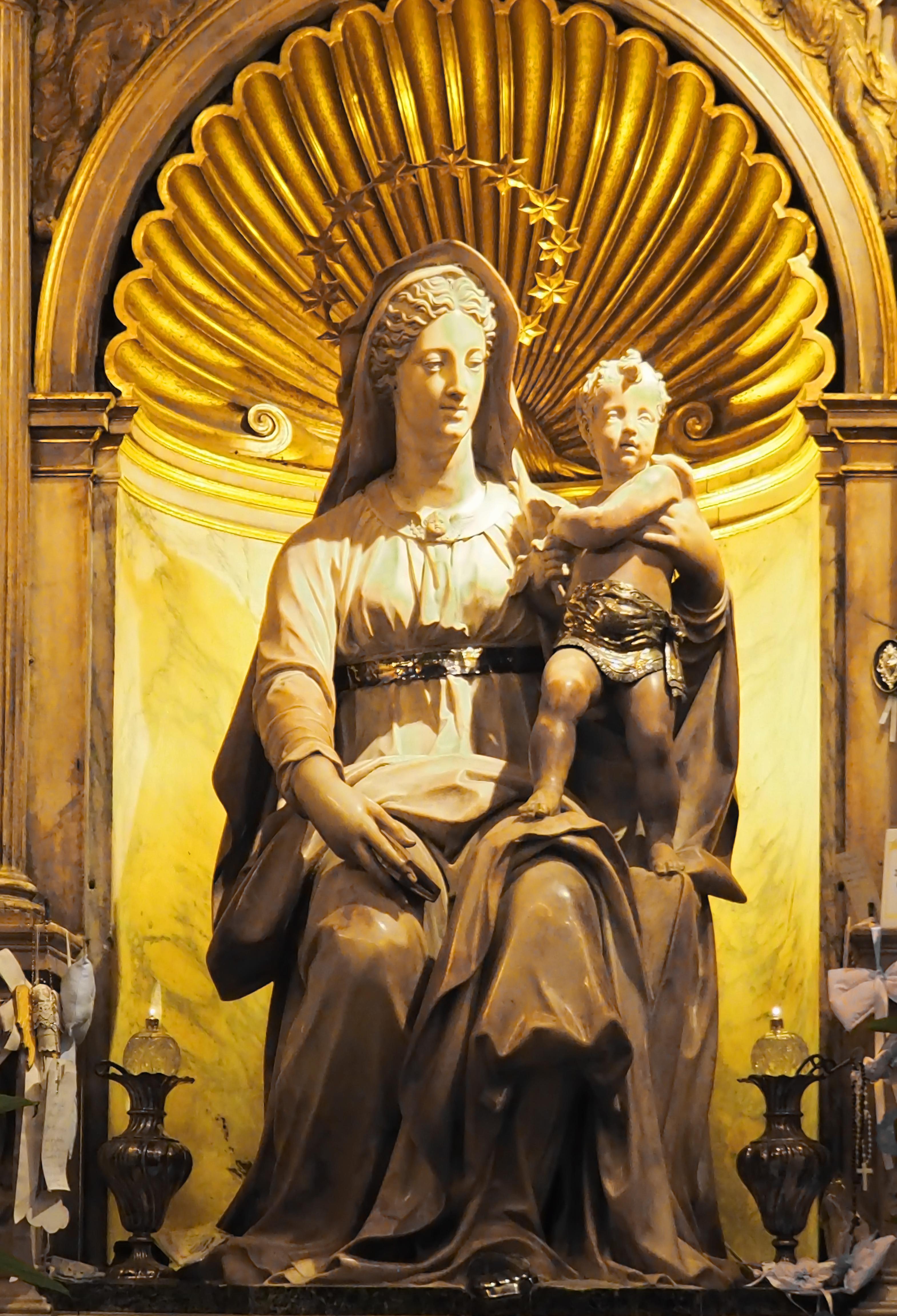 Sant Agostino (Rome); Madonna del parto; Jacopo Sansovino